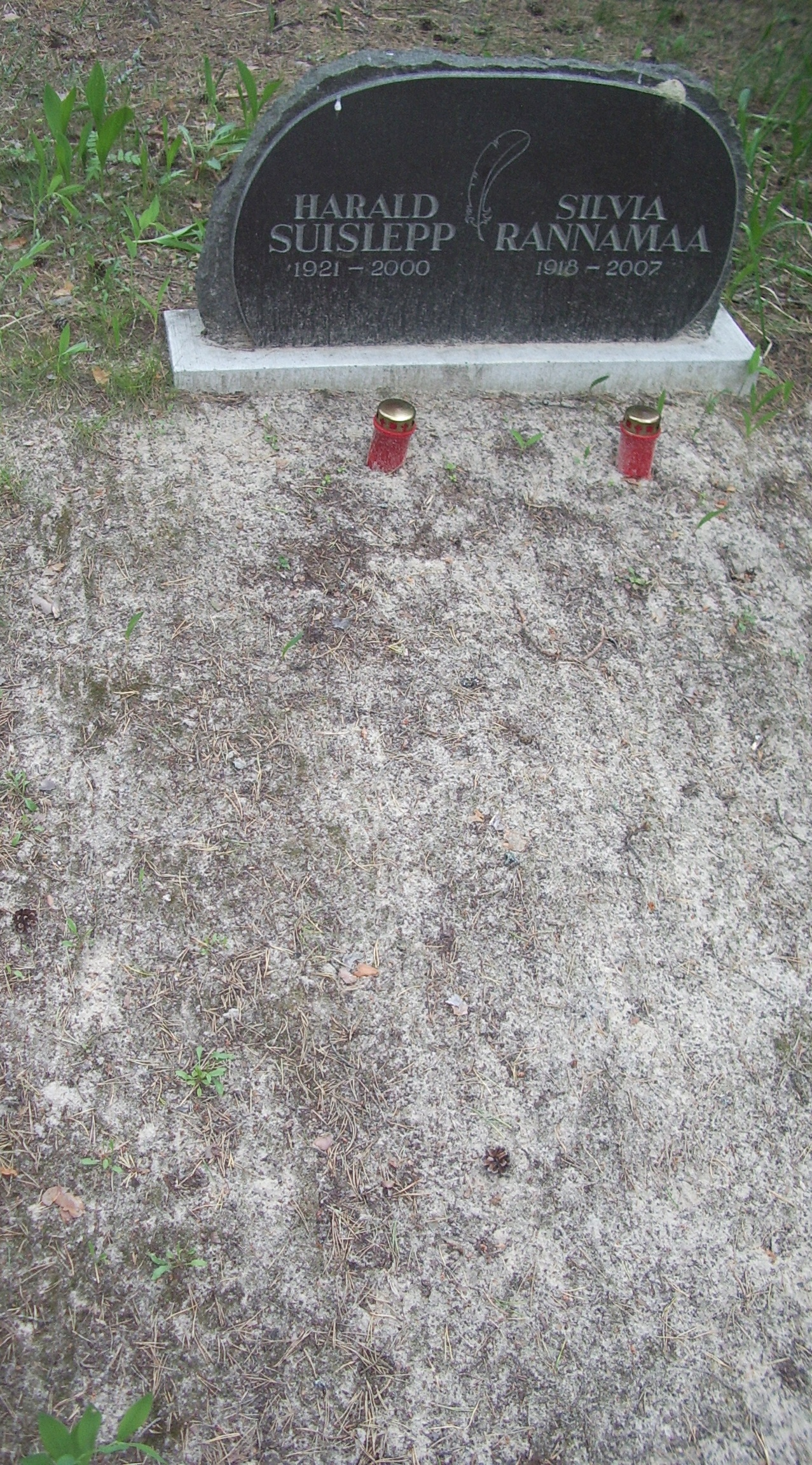 A tomb of Harald Suislepp and Silvia Rannamaa